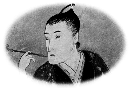 Portrait of Hiraga Gennai. From an 18th century book.